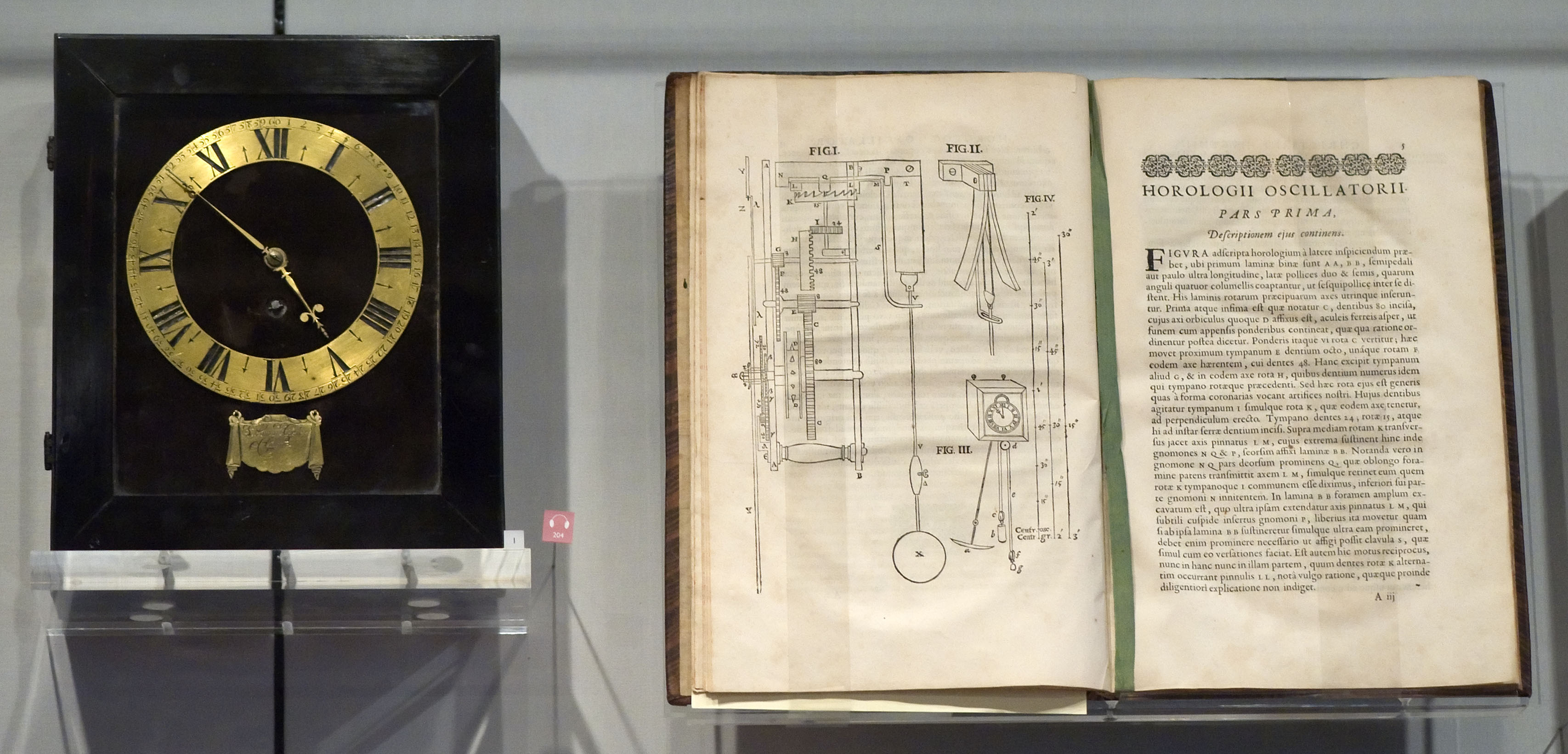 One of the first pendulum clocks designed by the inventor of the pendulum clock, French scientist Christiaan Huygens, and his treatise on the pendulum, Horologii Oscillatorii published in 1673, on display in Museum Boerhaave in Leiden, Netherlands. This may be Huygens second pendulum clock, which was also finished in 1673 and is shown on the open page of the book. In it Huygens attempted to make the swing of the pendulum isochronous using "cycloidal cheeks" of metal (shown on page) to confine the suspension cord and give the pendulum a cycloidal trajectory. Huygens claimed an accuracy of 10 seconds per day.